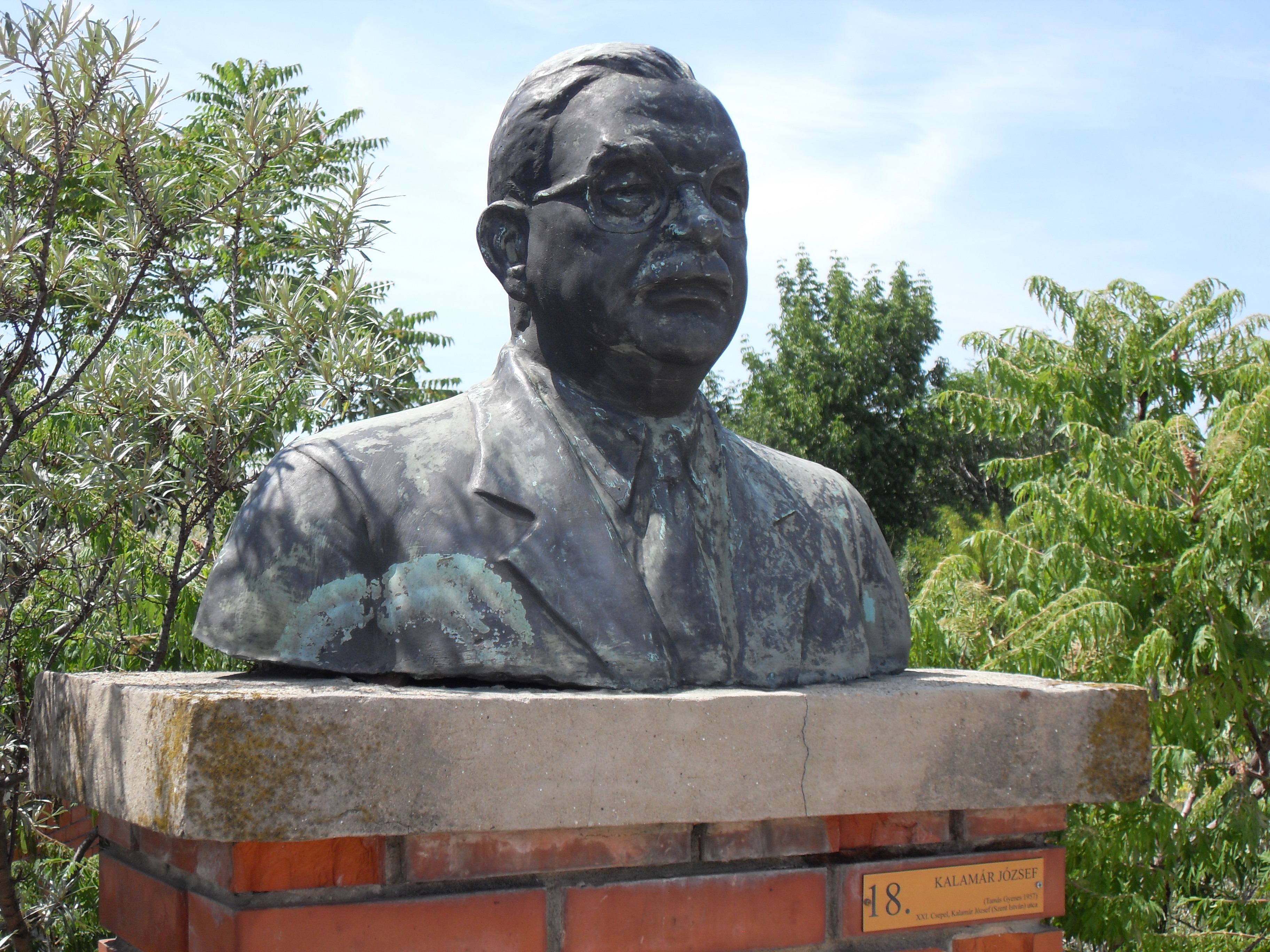 Bust of Kalamár József in the Memento Park. Author: Gyenes Tamás. Year: 1957.